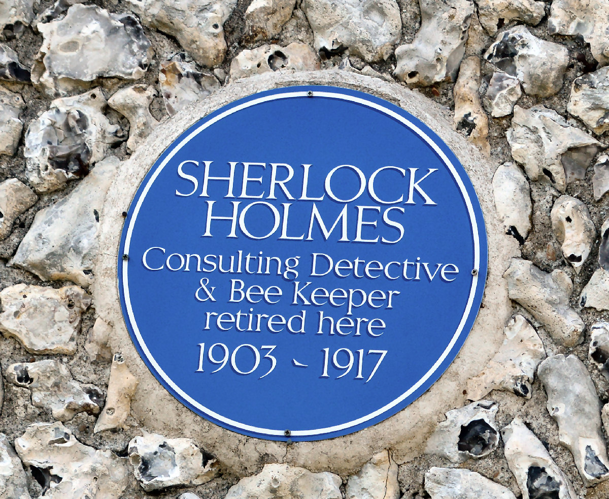 Sherlock Holmes blue plaque in East Dean, by the village green. "Sherlock Holmes, consulting detective & bee keeper retired here 1903 - 1917". Holmes retired to “a small farm upon the Downs, five miles from Eastbourne” according to the preface to 'His Last Bow'.